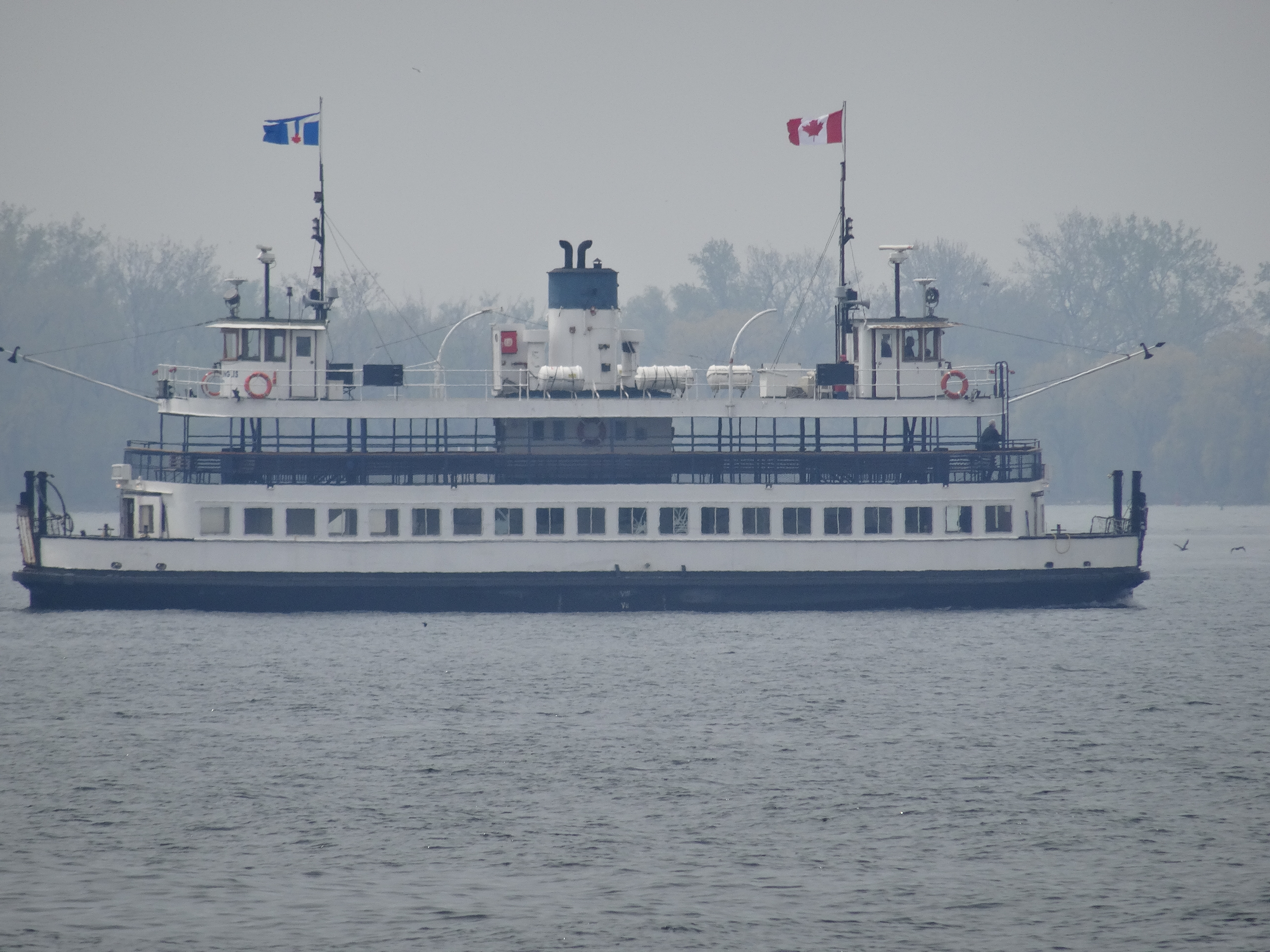 Ferry William Inglis, 2015 05 16